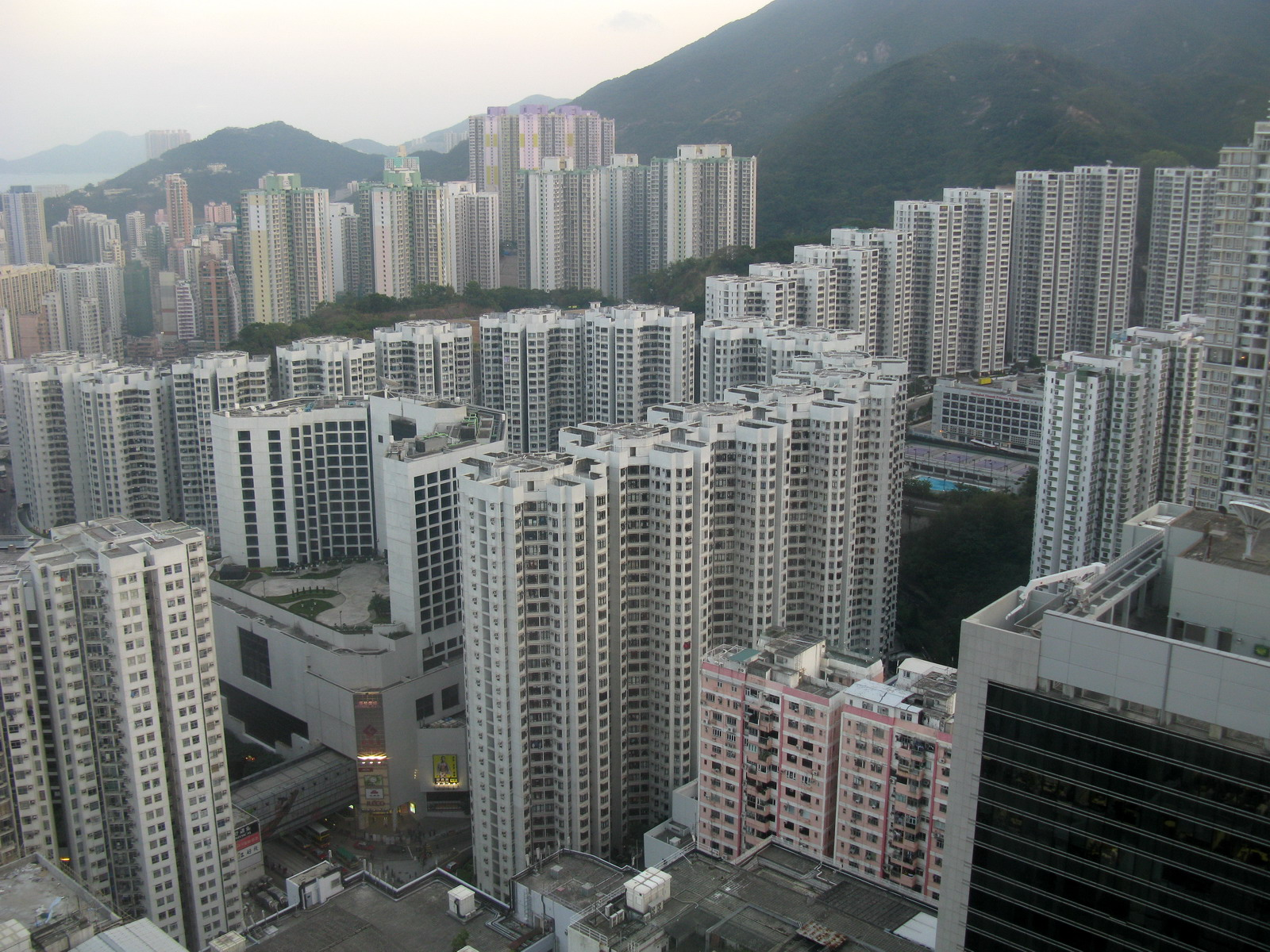 Aerial view of Kornhill, from 37/F One Island East